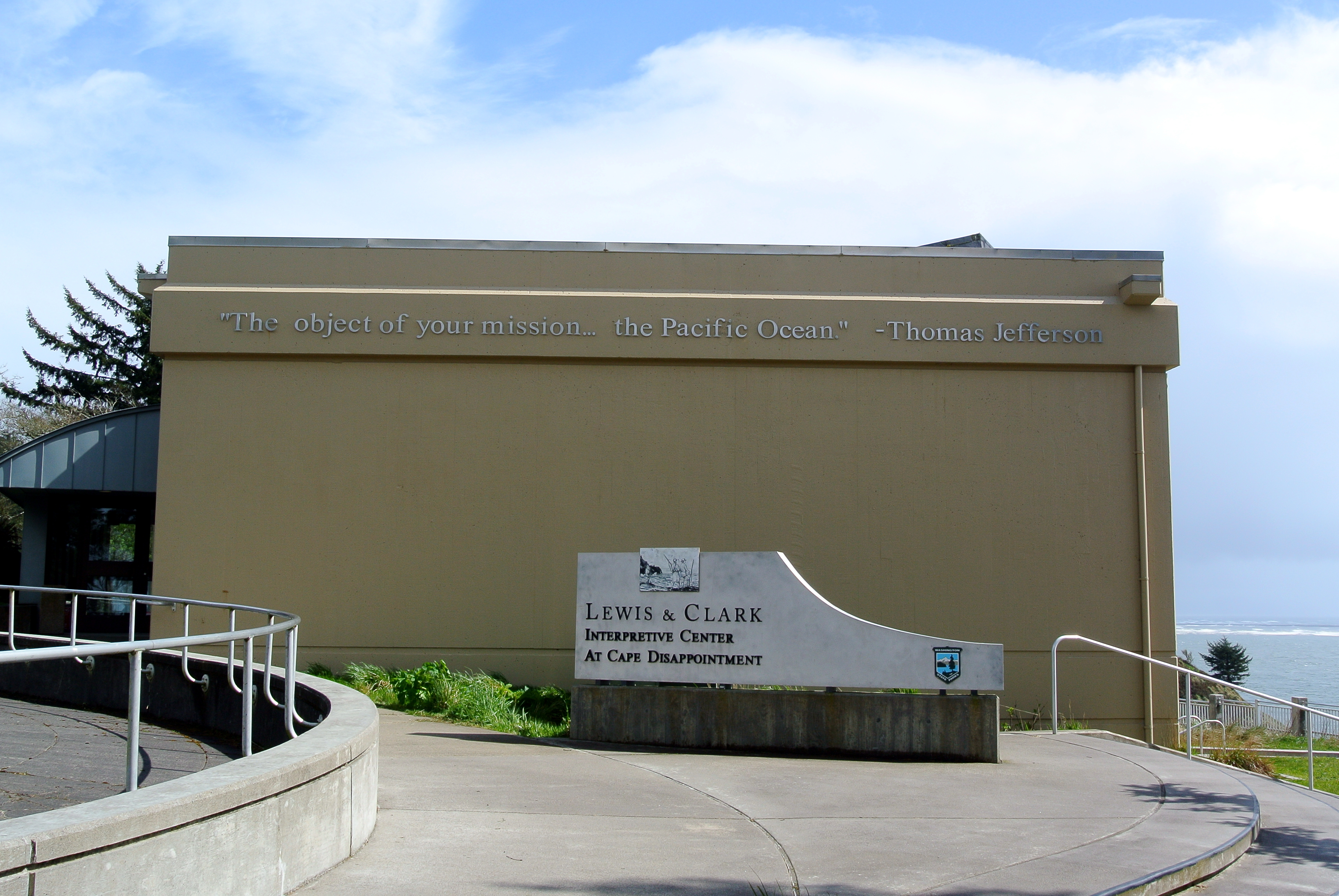 Lewis and Clark Interpretive Center in Cape Disappointment State Park. Nikon 1 V1 + 1 Nikkor VR 10-30mm f/3.5-5.6